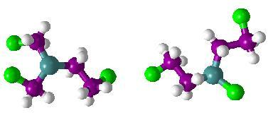 Structures of Co(NH3)4Cl3 that were originally proposed. Correct structures are shown in this picture: File:Co(NH3)4Cl3-werner.jpg